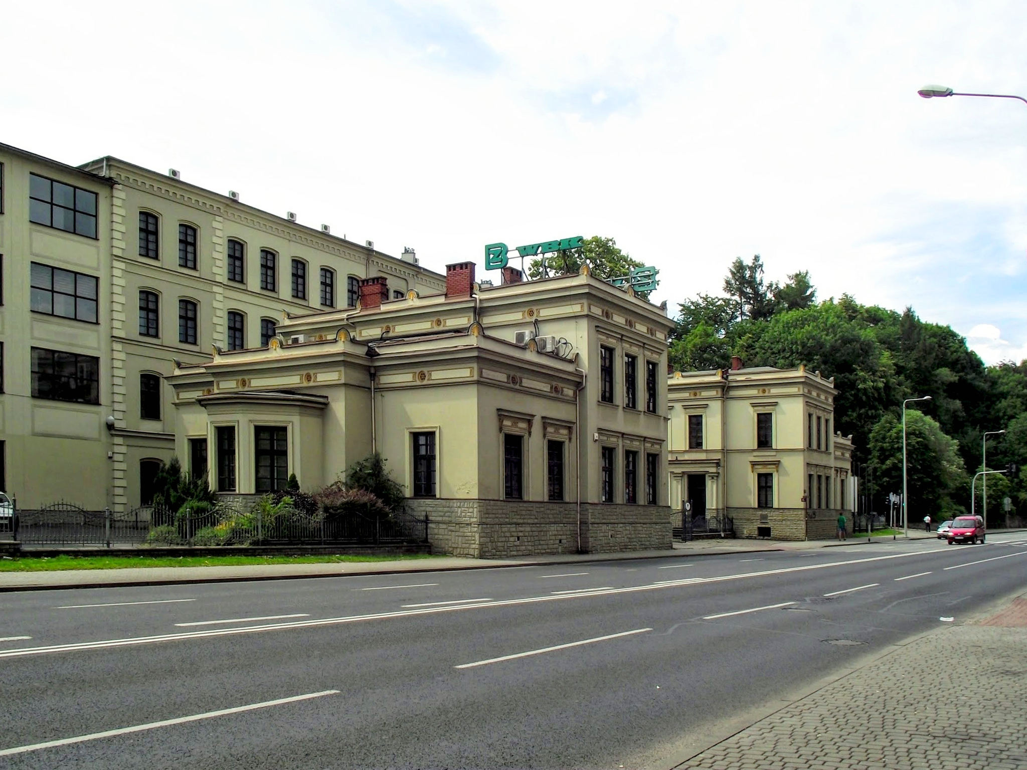 Bielsko-Biała.Bogmar – older factory and her owner houses